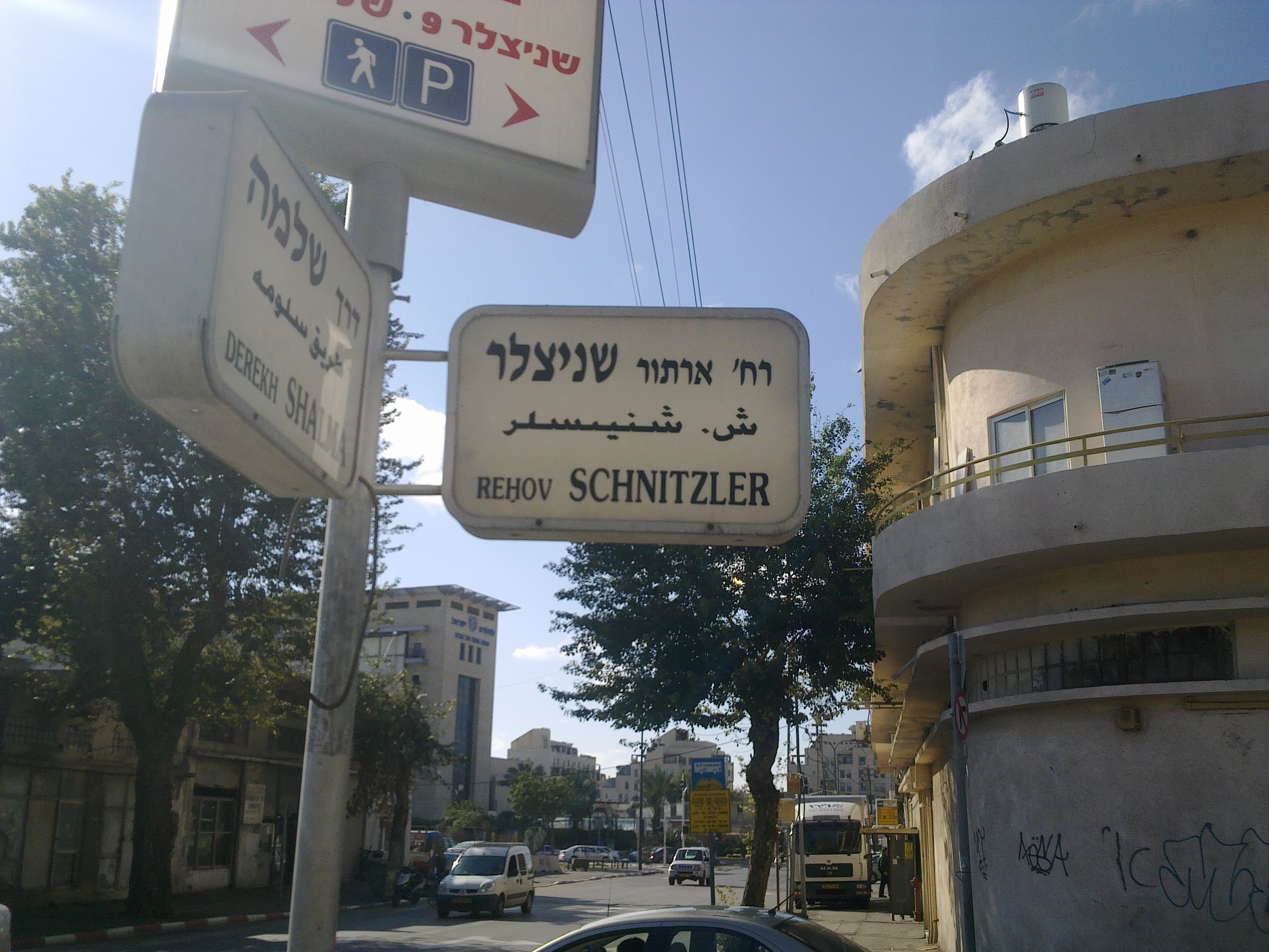 Arthur Schnitzler St. in Tel Aviv, Israel